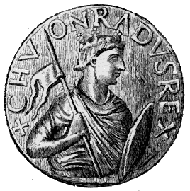 old seal, showing Conrad I of Germany